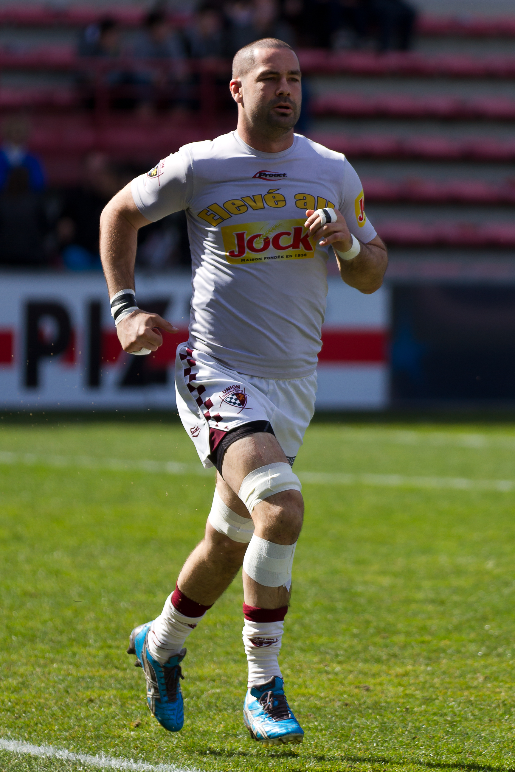 Matthew Clarkin, playing number 8 for Union Bordeaux-Bègles.